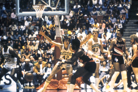 Supersonics basketball game; City Light slides [1]